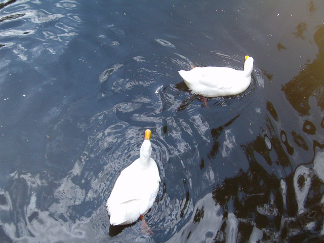 Ducks in Desierto de los Leones National Park. Located in western México, D. F..